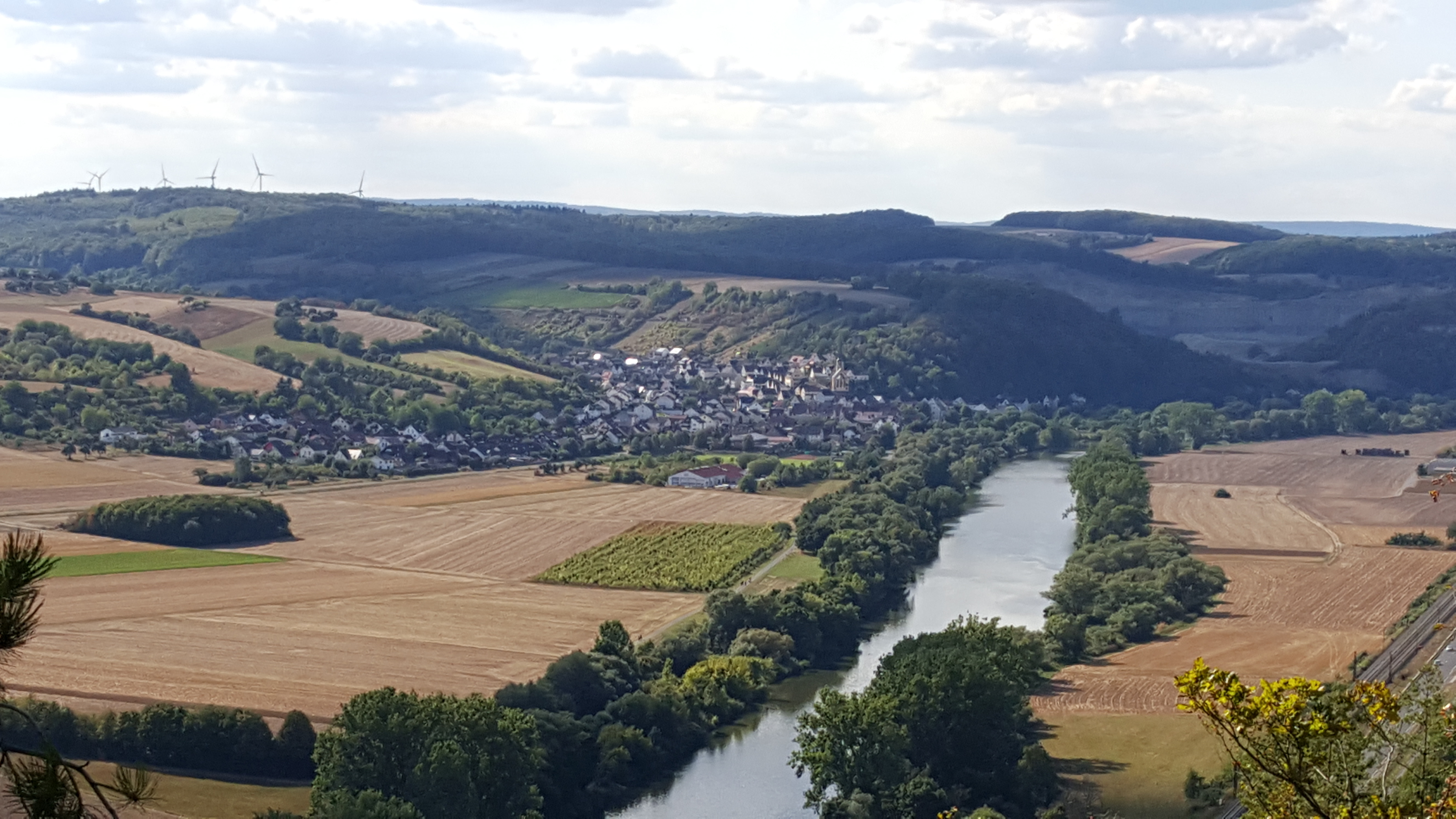 Closeup of river Main and Laudenbach (city part of Karlstadt) from TerroirF Point